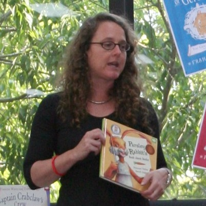 Author Frances Watts dropped by the library to talk about her new book, The Spies of Gerander.